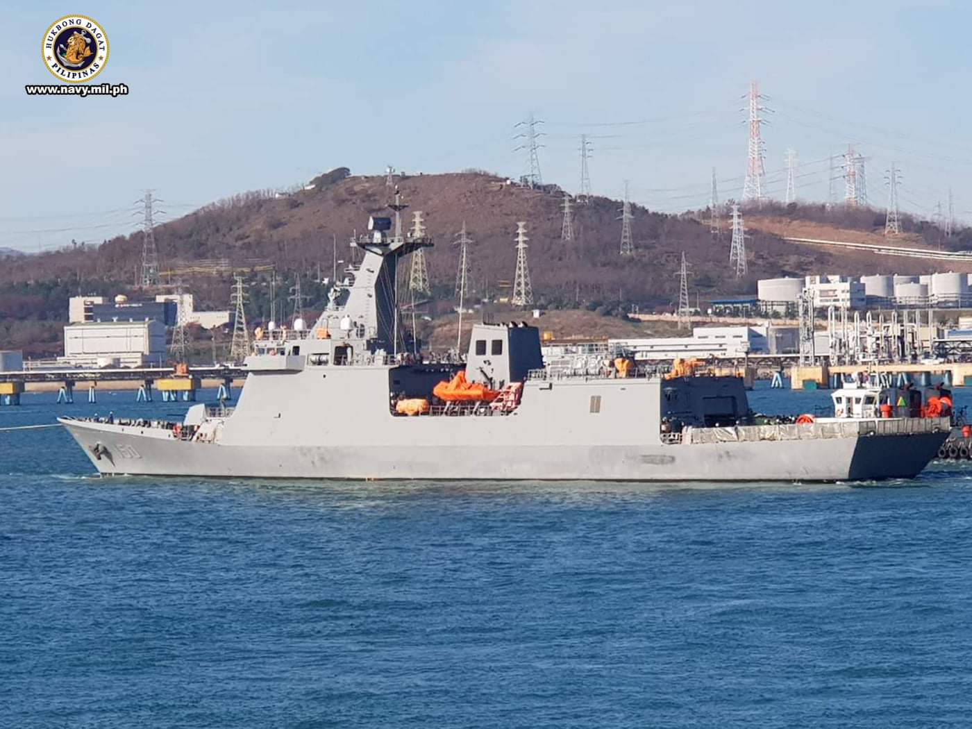 BRP Jose Rizal (FF150) undergoes historic sea trials. Stern view.